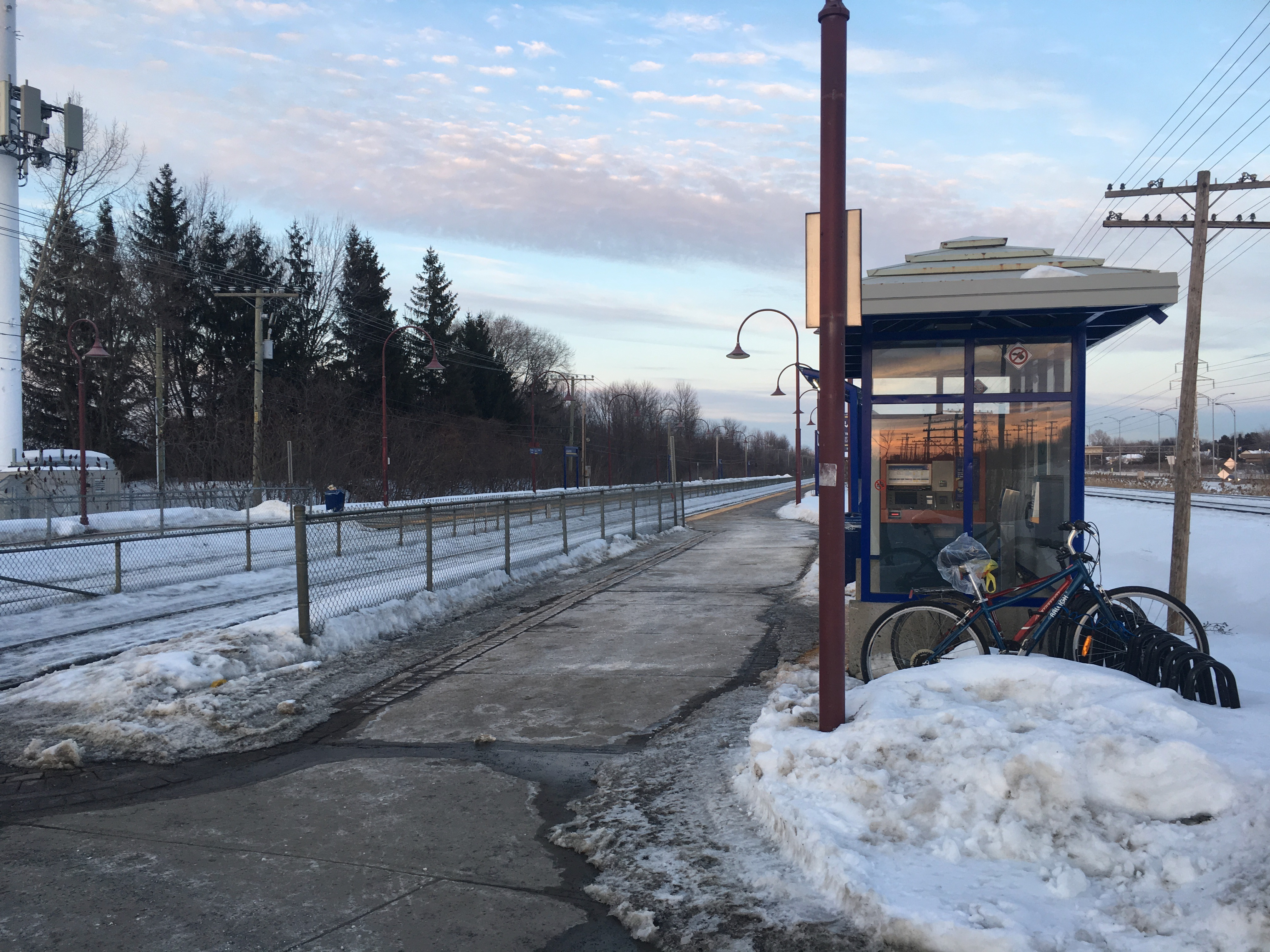 Picture of the Baie-d'Urfé exo train station